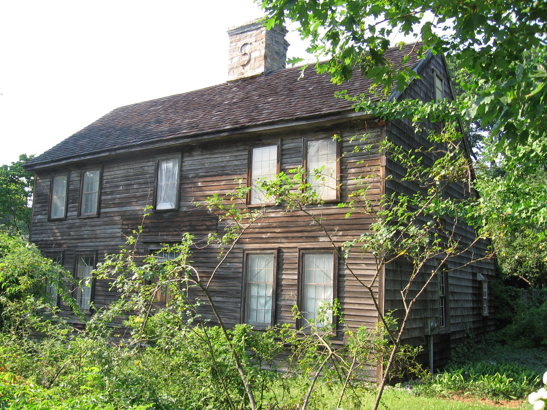 Oldest house in Darien, Connecticut Photo taken July 9, 2007